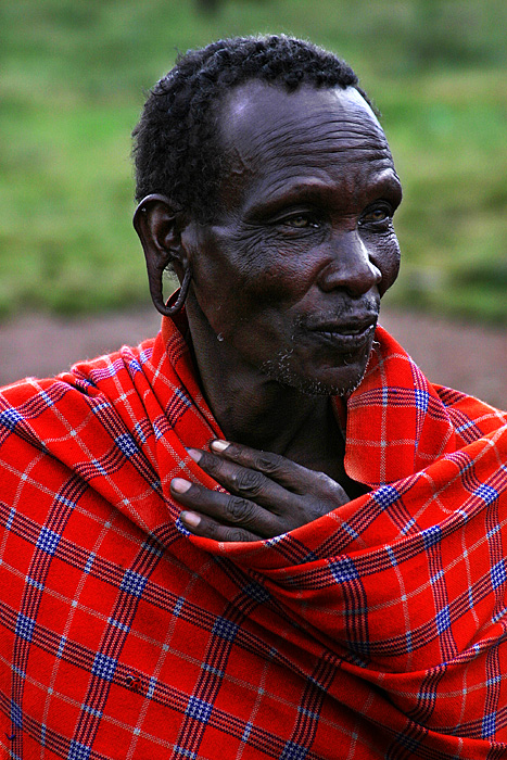 Dmitri Markine(self) Masai Elder of Masai tribe